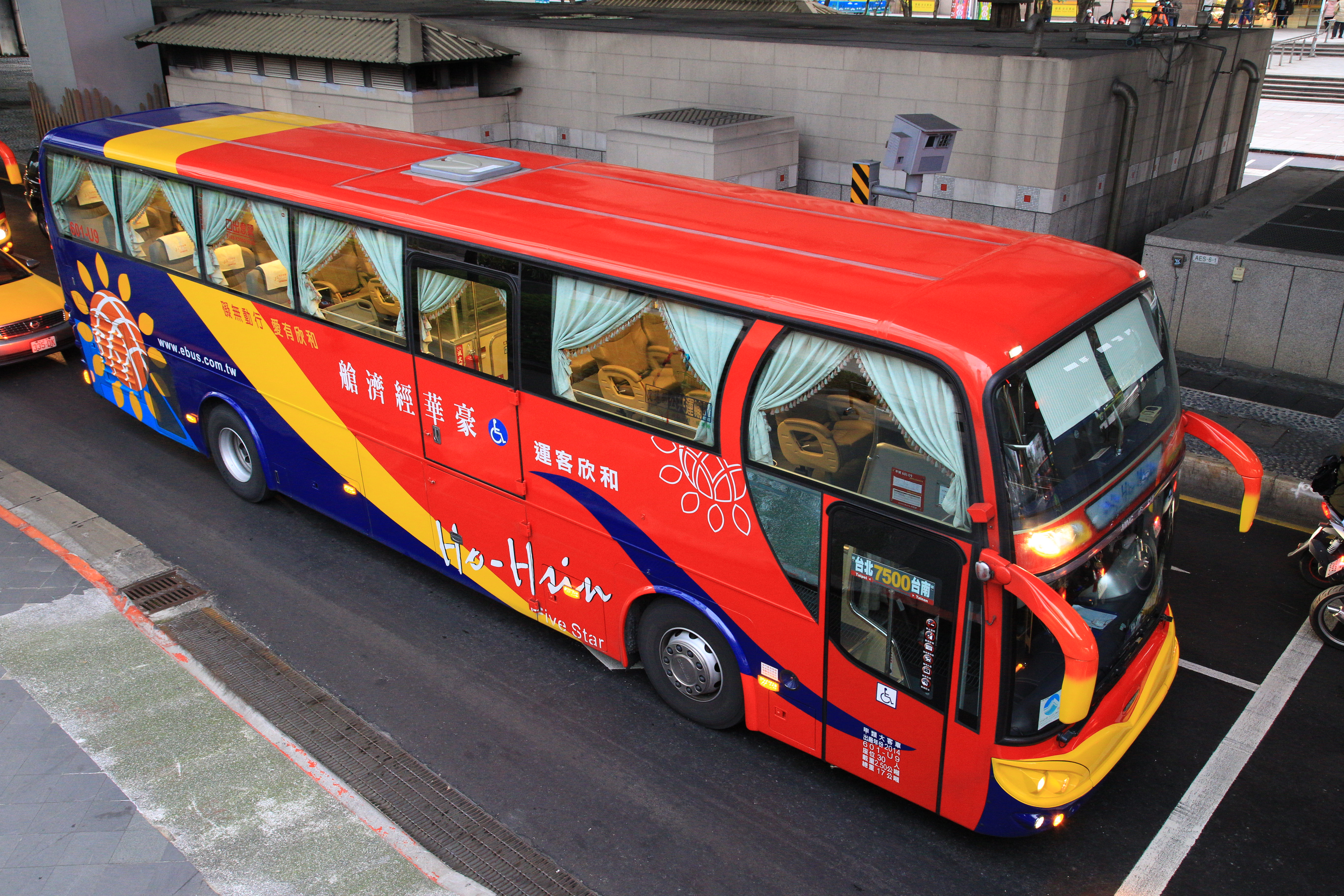 HoHsinBus SCANIA K400IB4X2NB 607-U9